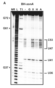 In-line probing assay showing changes in flexibility of certain regions in response to ligand binding